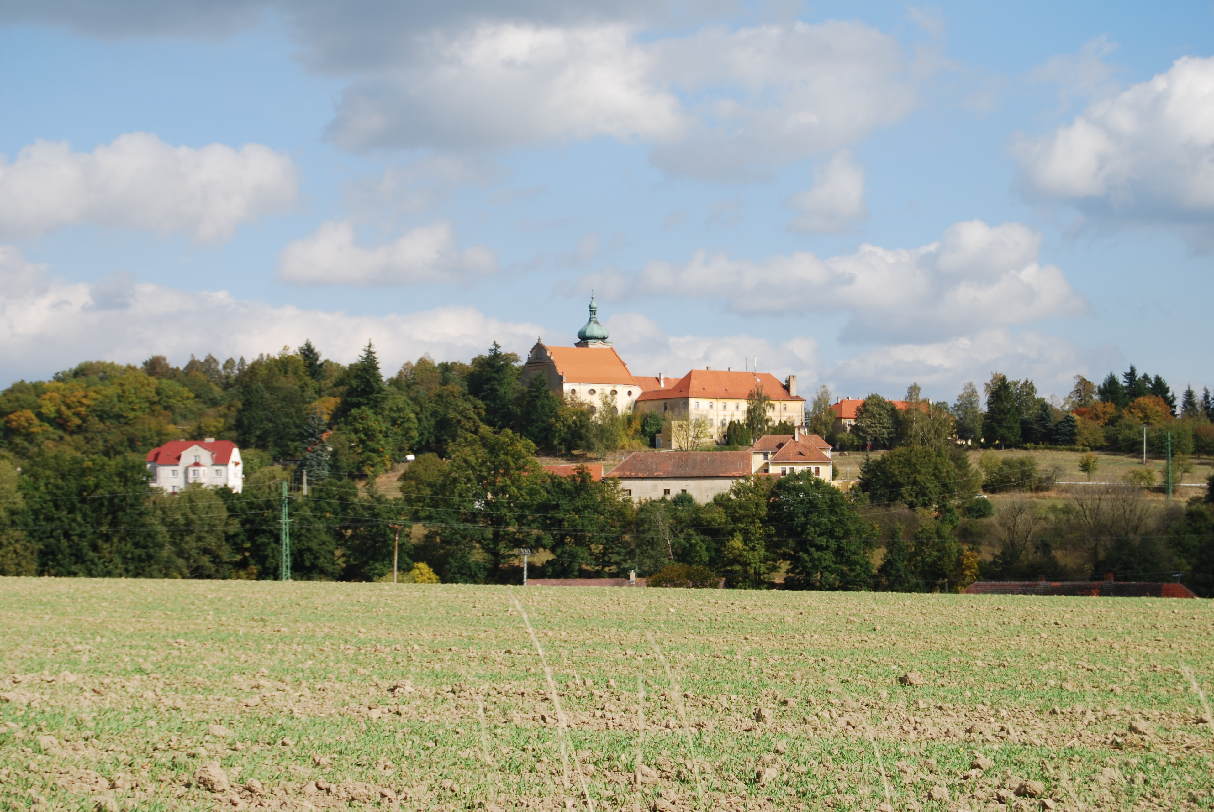 Monastery of Augustinian in Lnáře town, Strakonice District, Czech Republic.